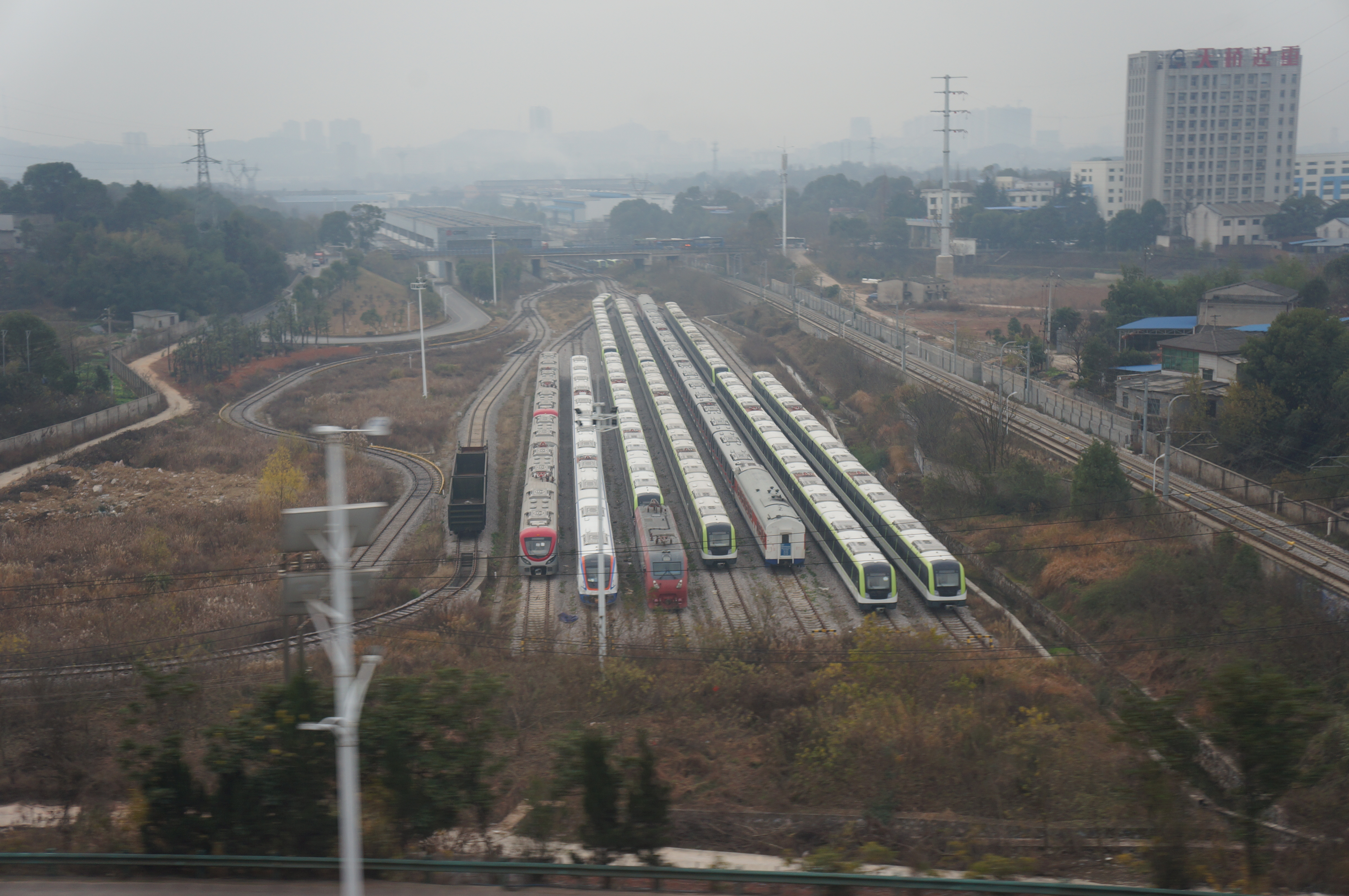 201712 Vehicles at Tianxin Loco, can't recognize most of them